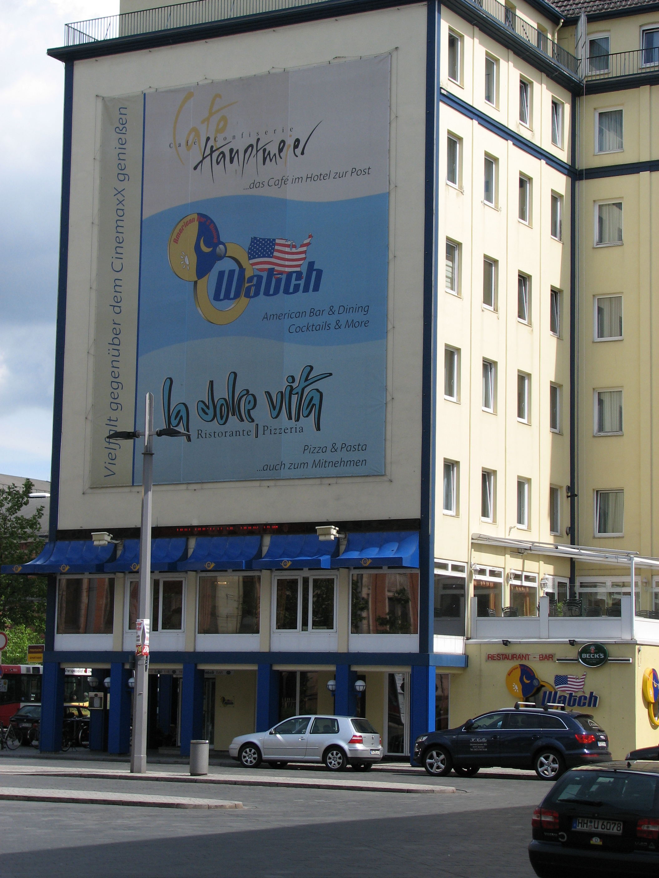 Hotel zur Post, now also known as Best Western Hotel zur Post, is a hotel in Bremen, Germany, built in 1889